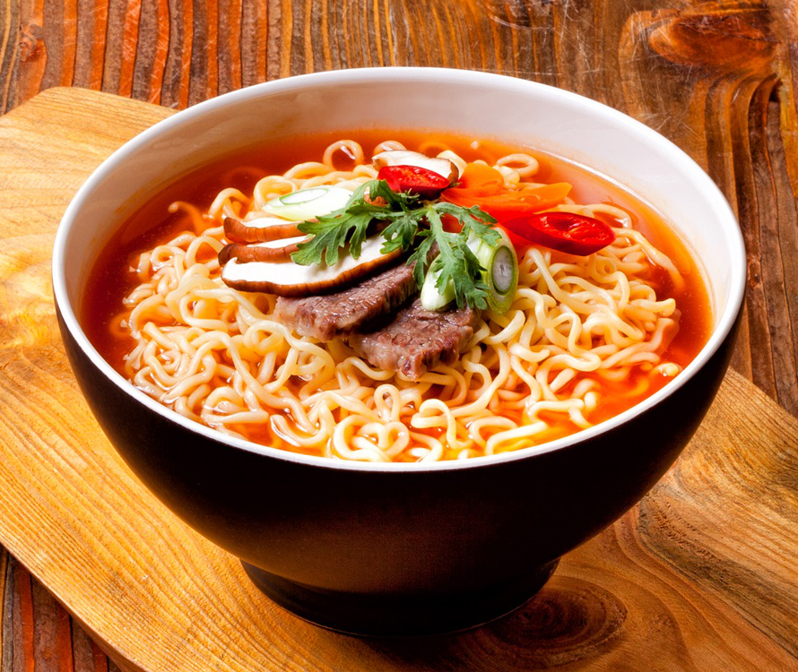 cropped